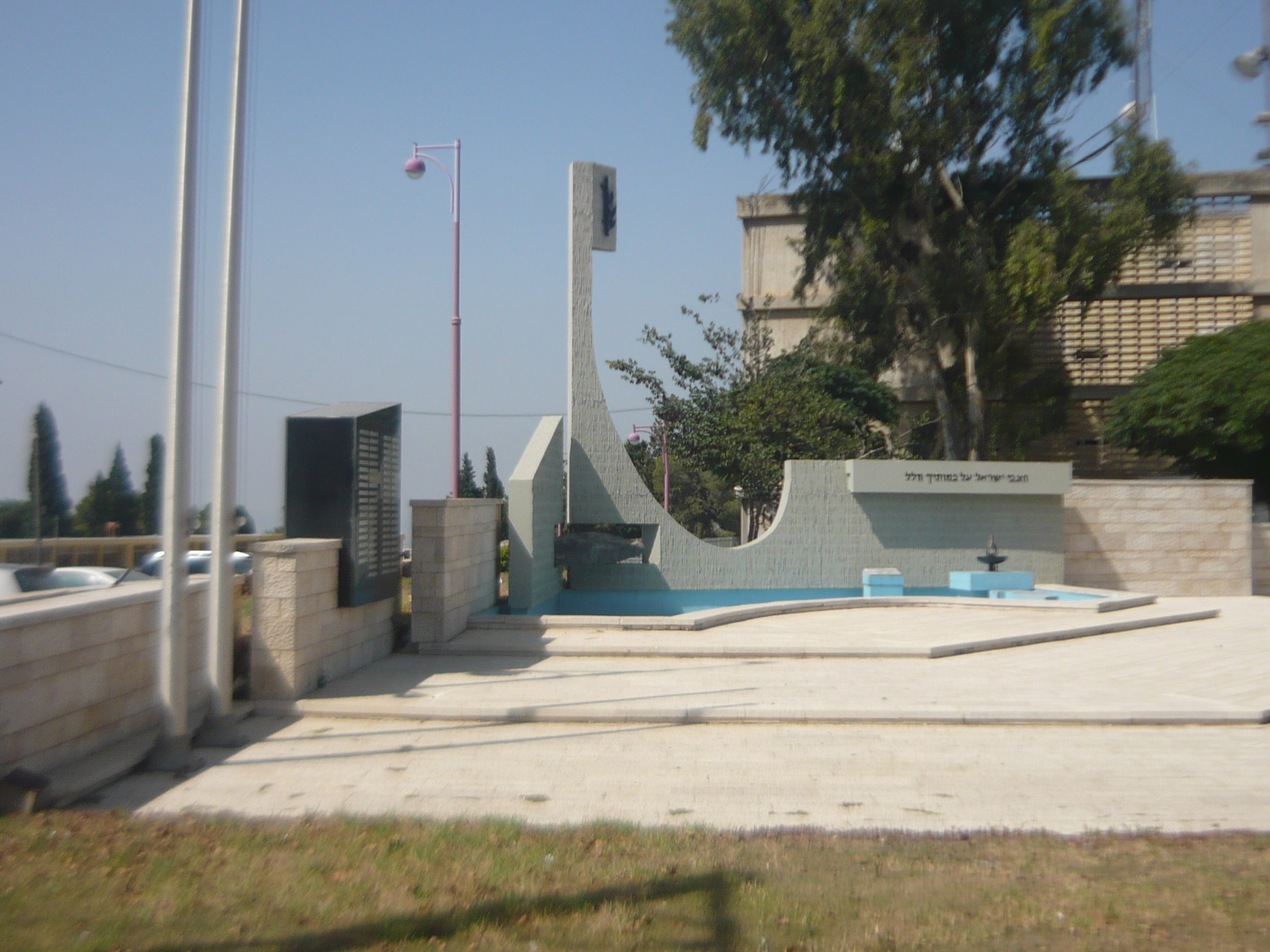 memorial wall in Nazrat Illit מצבה לזכר בני נצרת עילית שנפלו בשירות צה"ל